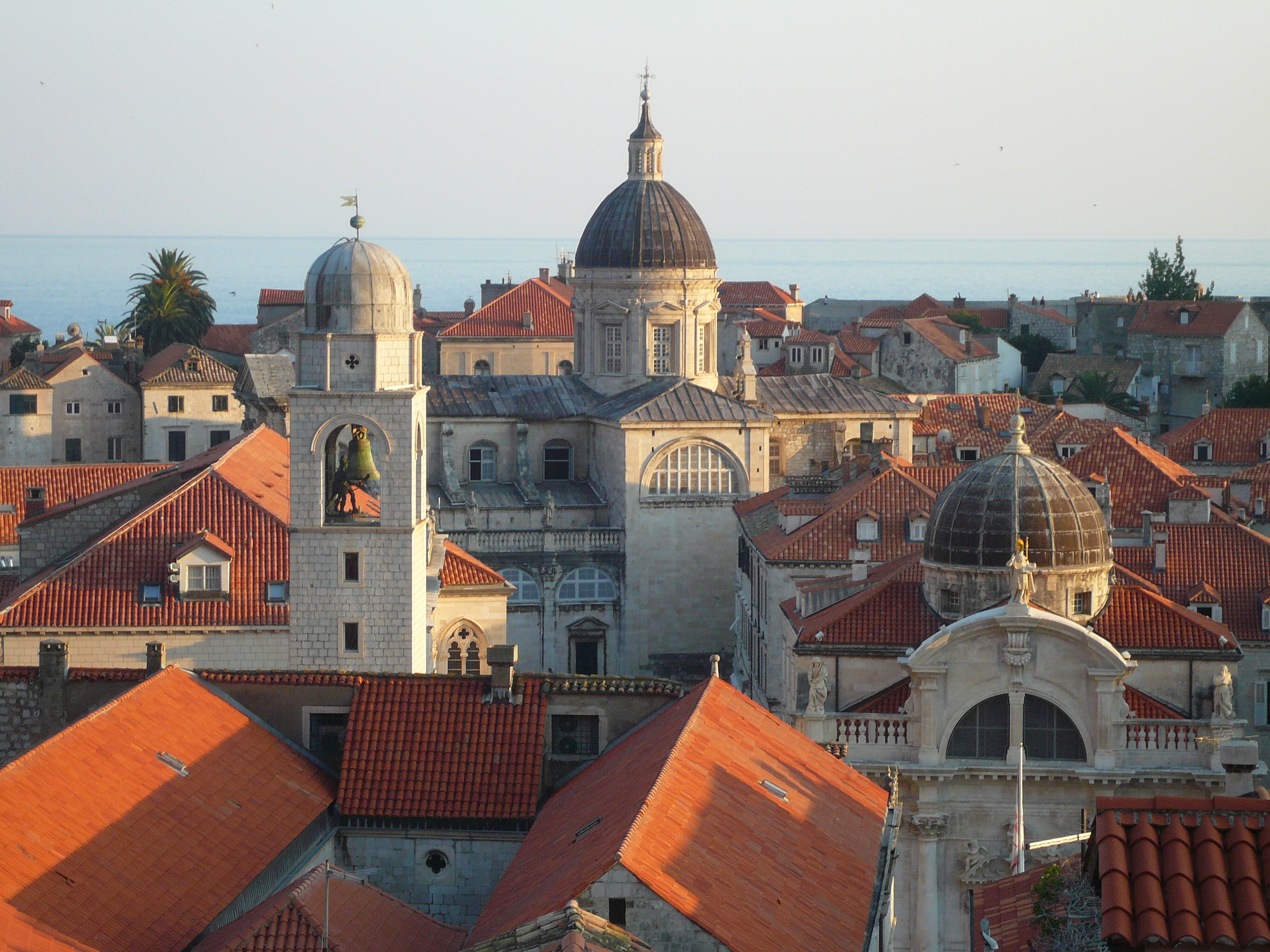 Old City of Dubrovnik (Croatia)